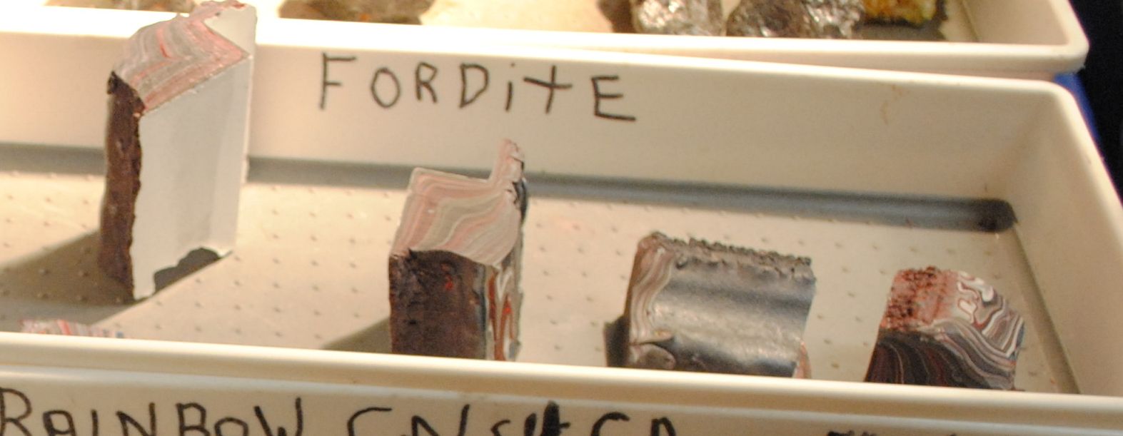 rainbow calsilica and fordite